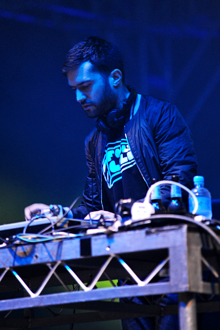 Southbound Festival 2011